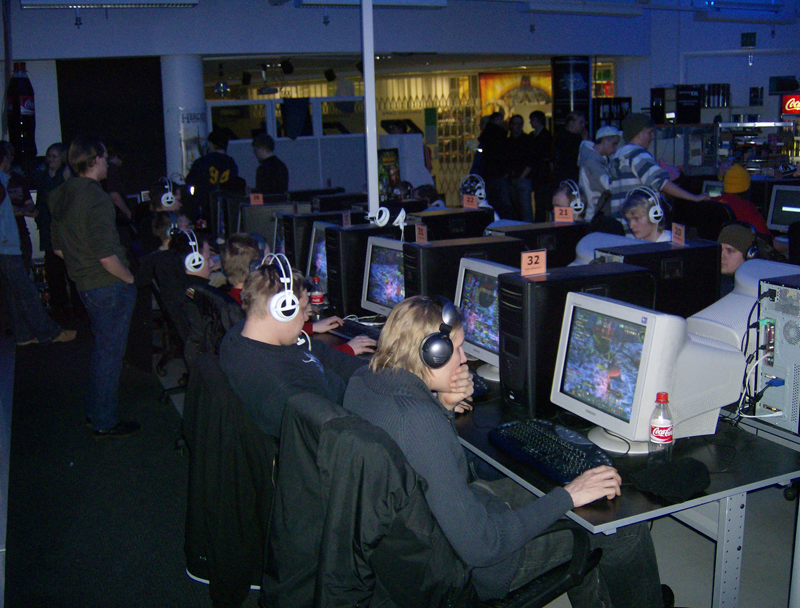 Cafe Level 7 - Picture from the café